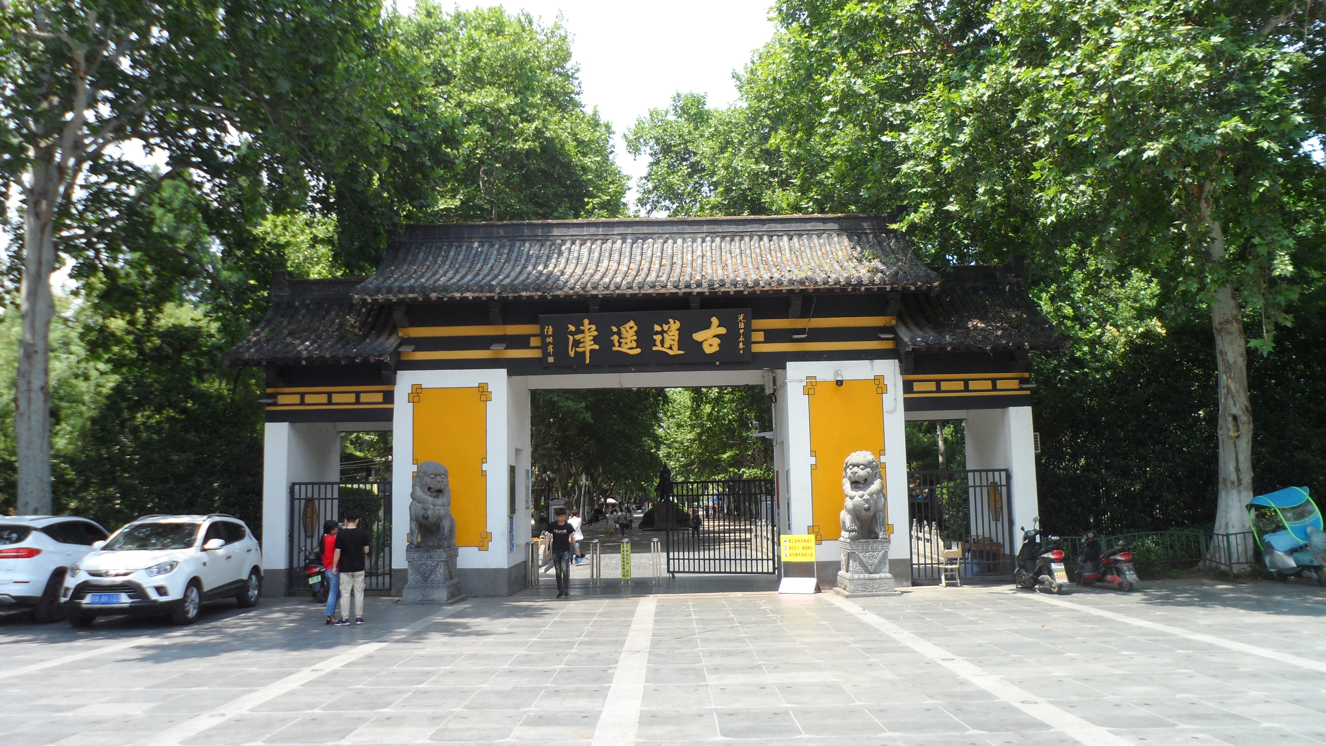 Main Gate of Xiaoyaojin Park